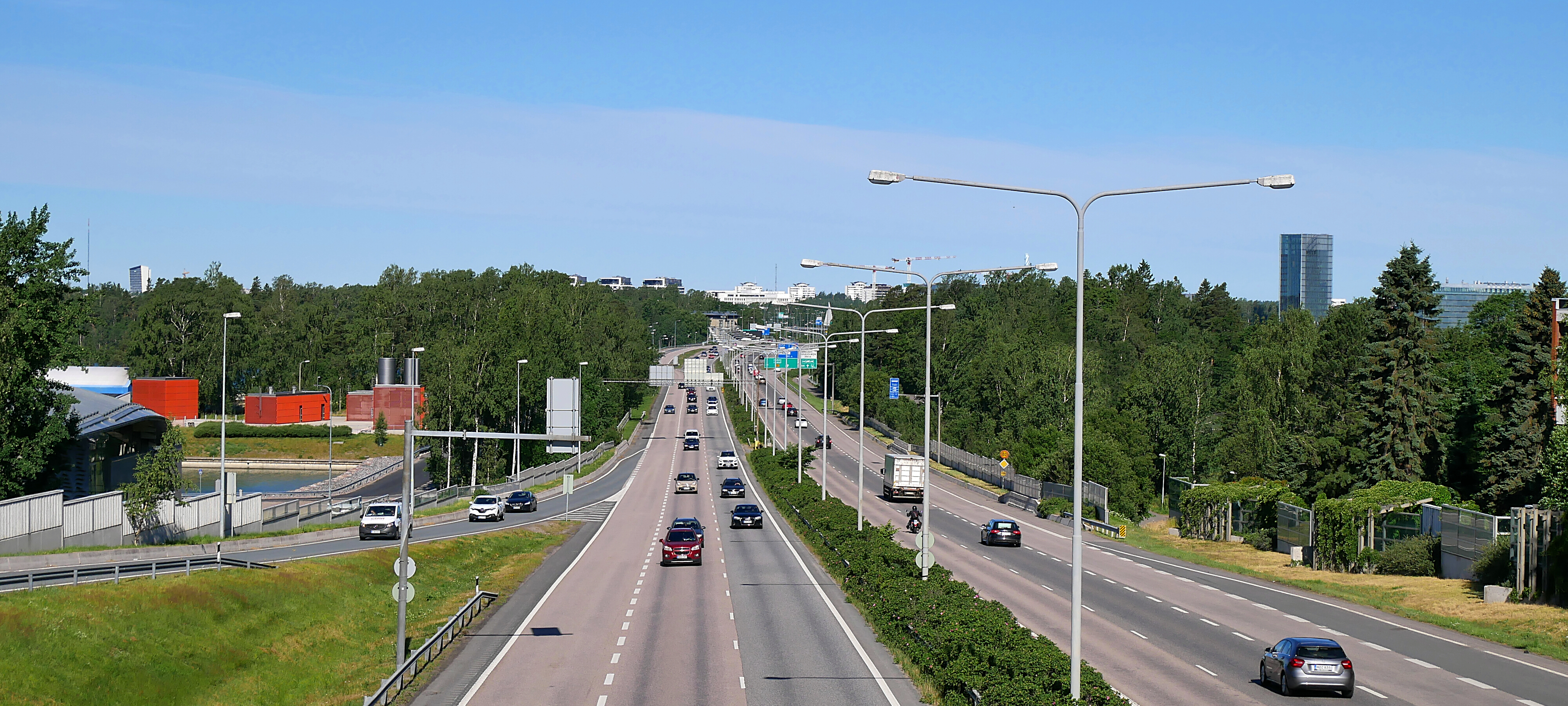 The expressway Länsiväylä in Espoo and Helsinki in the region of Uusimaa (Finland). Morning, direction west.